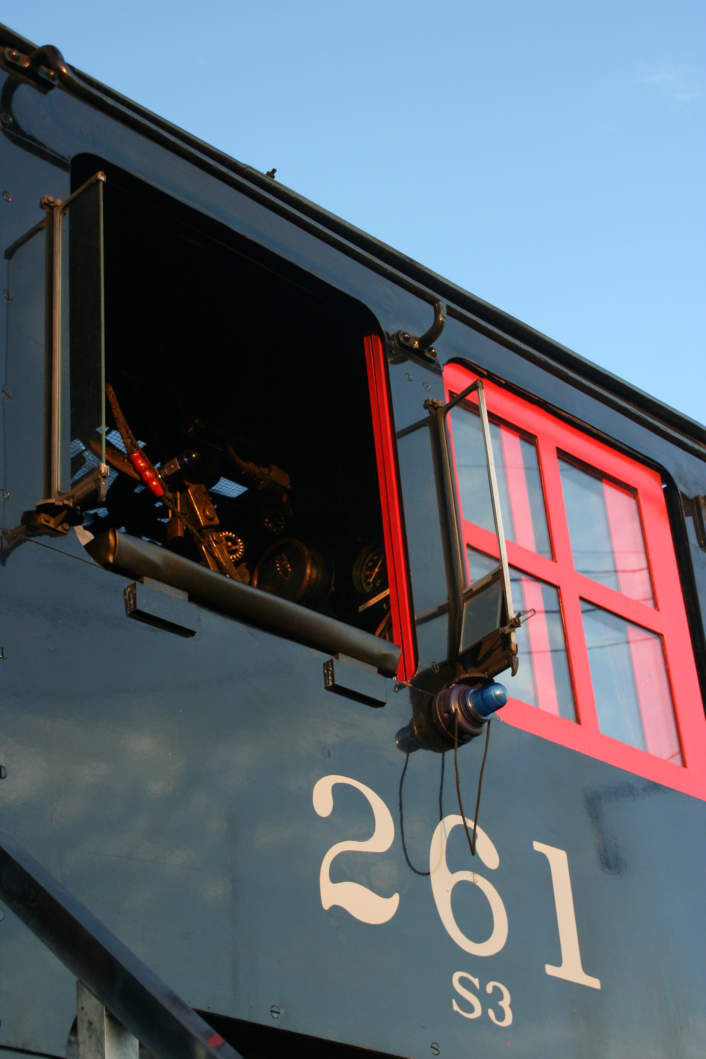 Exterior of the MILW 261 steam locomotive cab